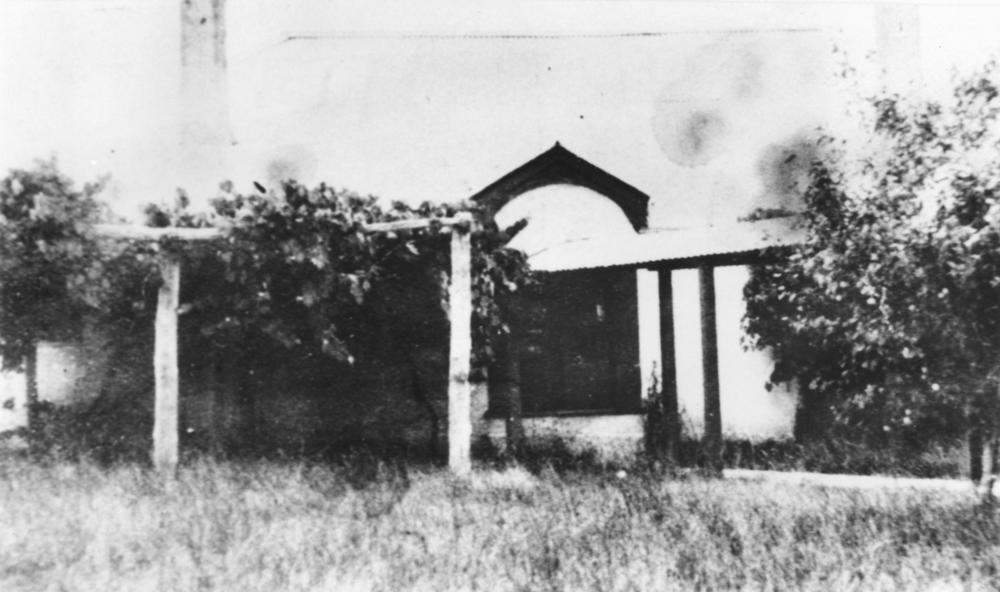 Glimpse of Ballandean Station homestead, 1933. A gable-roofed portico shelters the main entry doors to the homestead. The homestead comprises a number of structures of cultural heritage significance, including a rendered masonry house, detached kitchen, creamery, killing and milking sheds, combined stables and hayloft and the remains of a blacksmith's shed and forge. The homestead is heritage listed in Queensland. Ballandean Station is south-west of the township of Ballandean, which lies 20 kilometres south of Stanthorpe on the New England Highway, in an area of southern Queensland known as the Granite Belt.